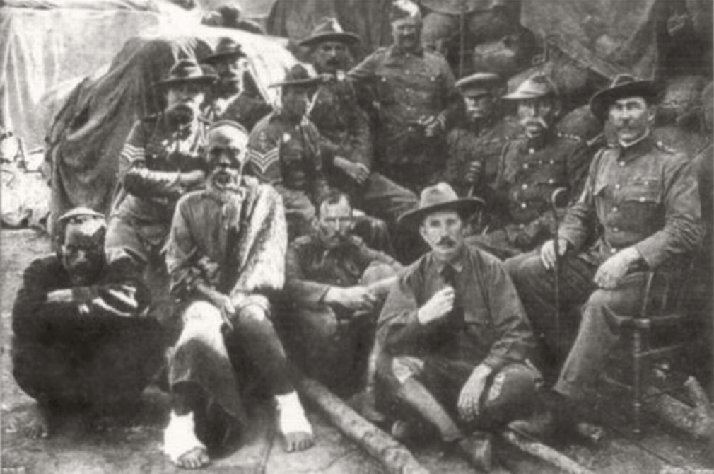 Captured rebel leader, Chief Sigananda, with a Natal Carbineers escort (The Star Weekly Edition, Johannesburg, 1906)